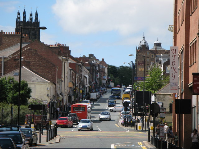 (The line of) Hadrian's Wall - Westgate Road